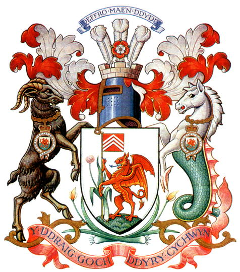 The coat of arms of Cardiff.